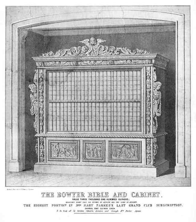 Print of the Bowyer Bible in cabinet